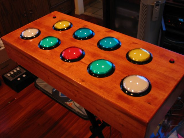 A pop'n music wooded homemade controller for play as arcade style.